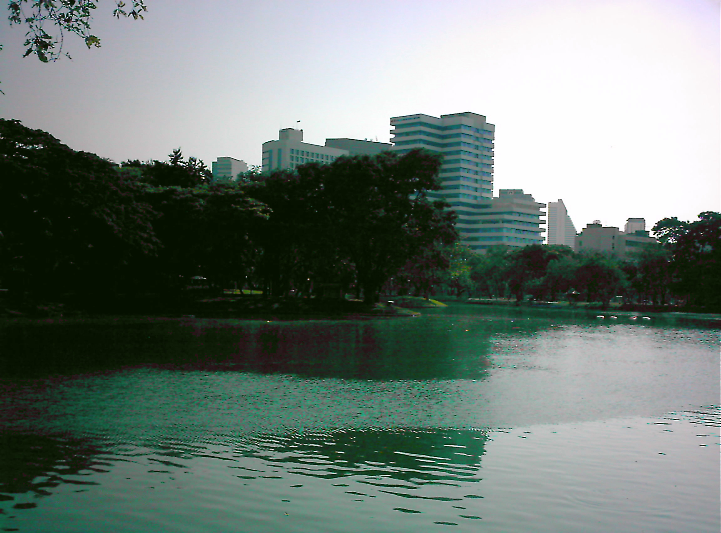 Little Guilin in Bukit Batok Town Park, Singapore 中文（香港）: 星洲小桂林：武吉巴督市鎮公園